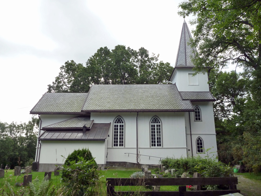 Oppegård church